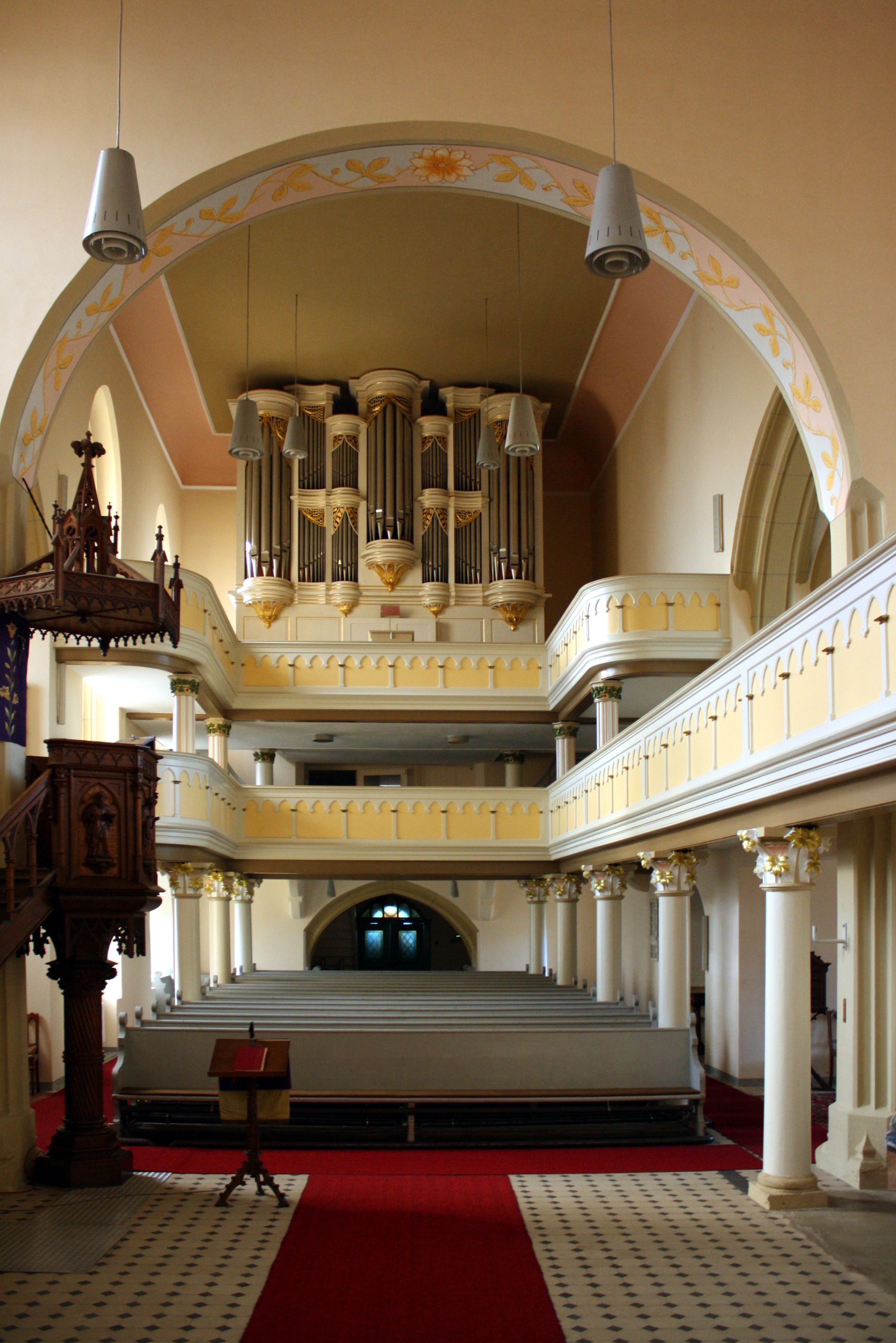 Nave with organ in St. Annas church in Gößnitz near Altenburg/Thuringia